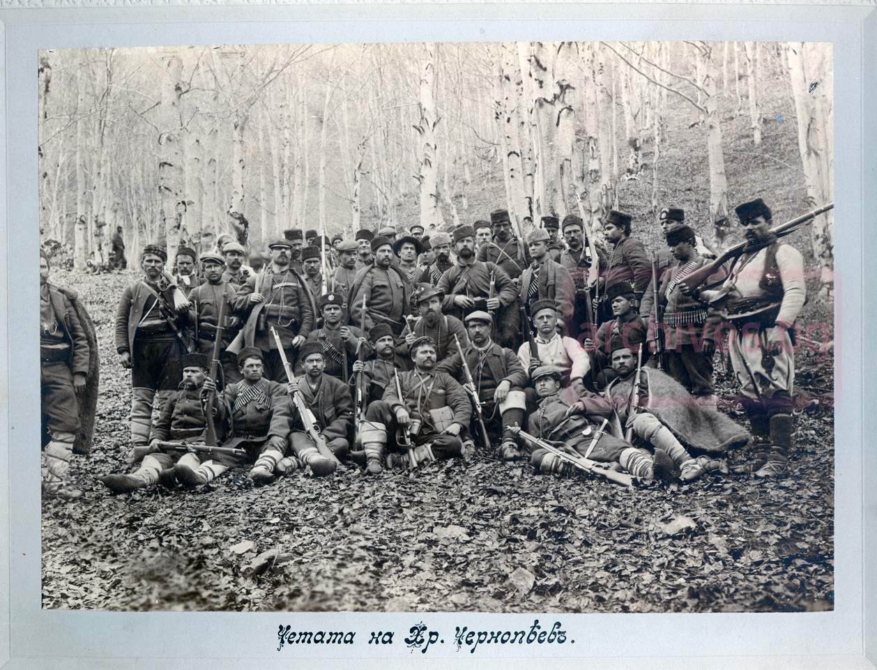 Strumica`s cheta of Hristo Chernopeev /in the middle/ and Ichko Bojchev /from the left of Chernopeev/ in 1903